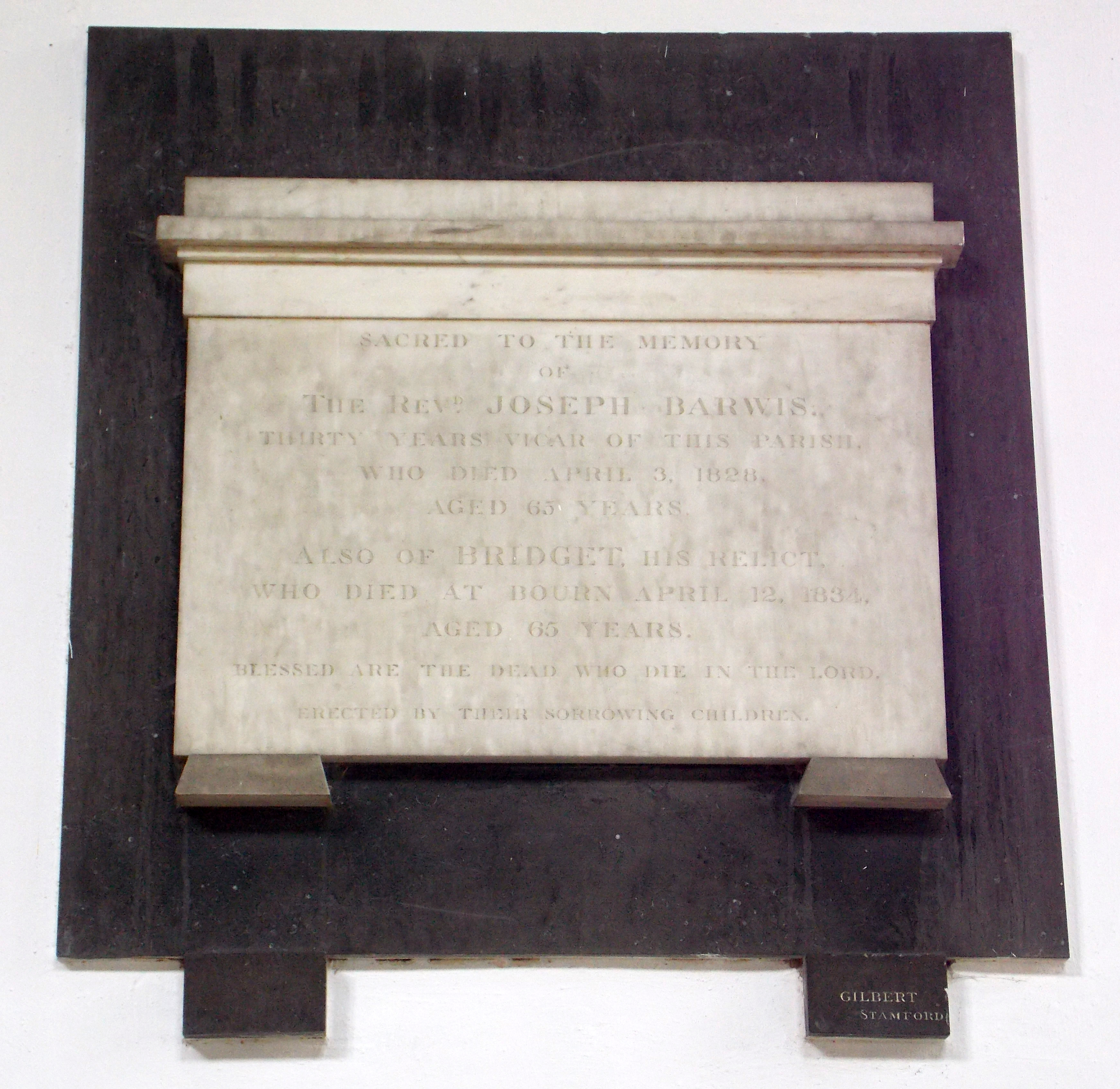 Aslackby St James, interior - North Aisle plaque 02